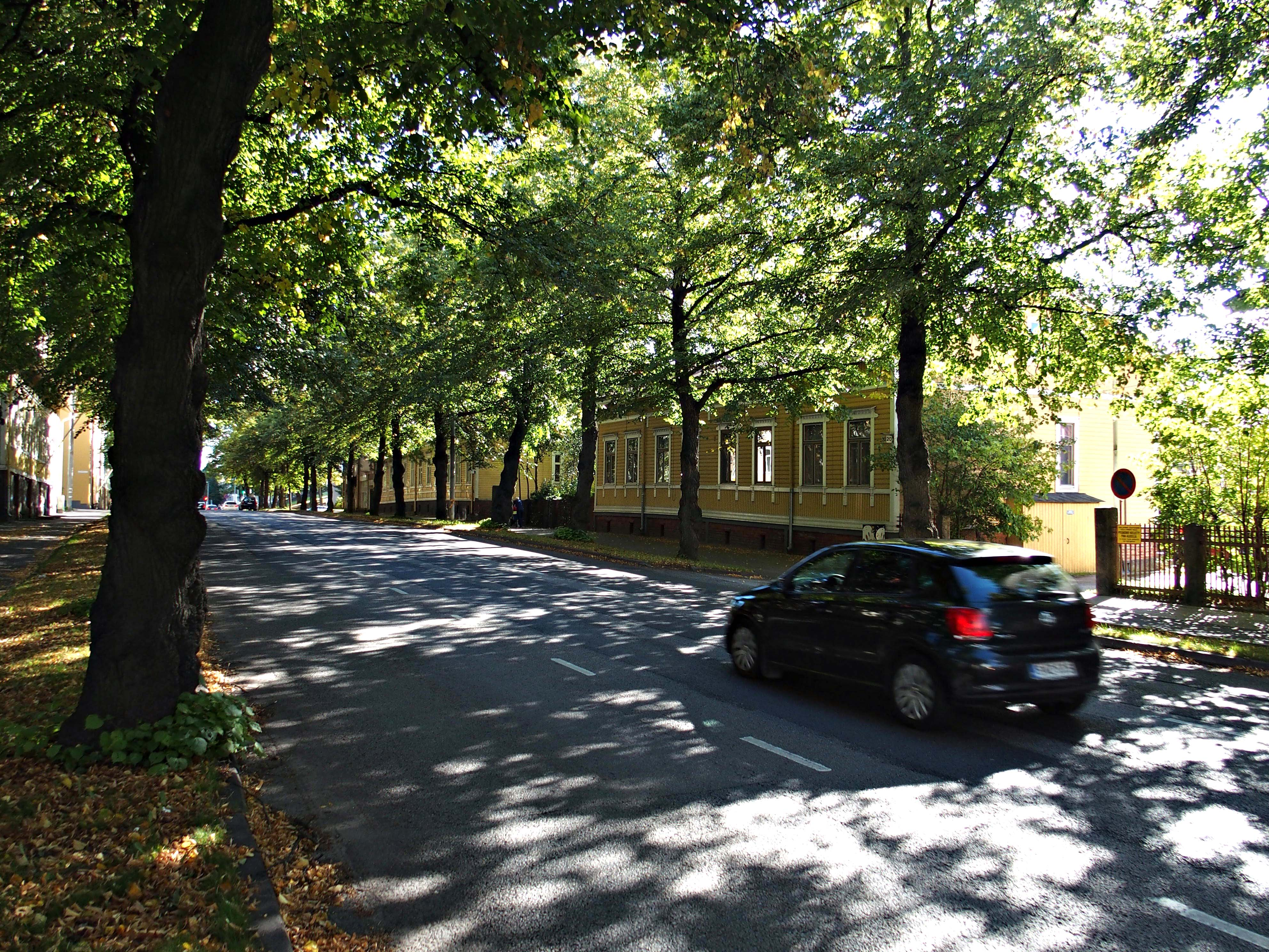 Puistokatu between Ratapihankatu and Rauhankatu in Turku Finland